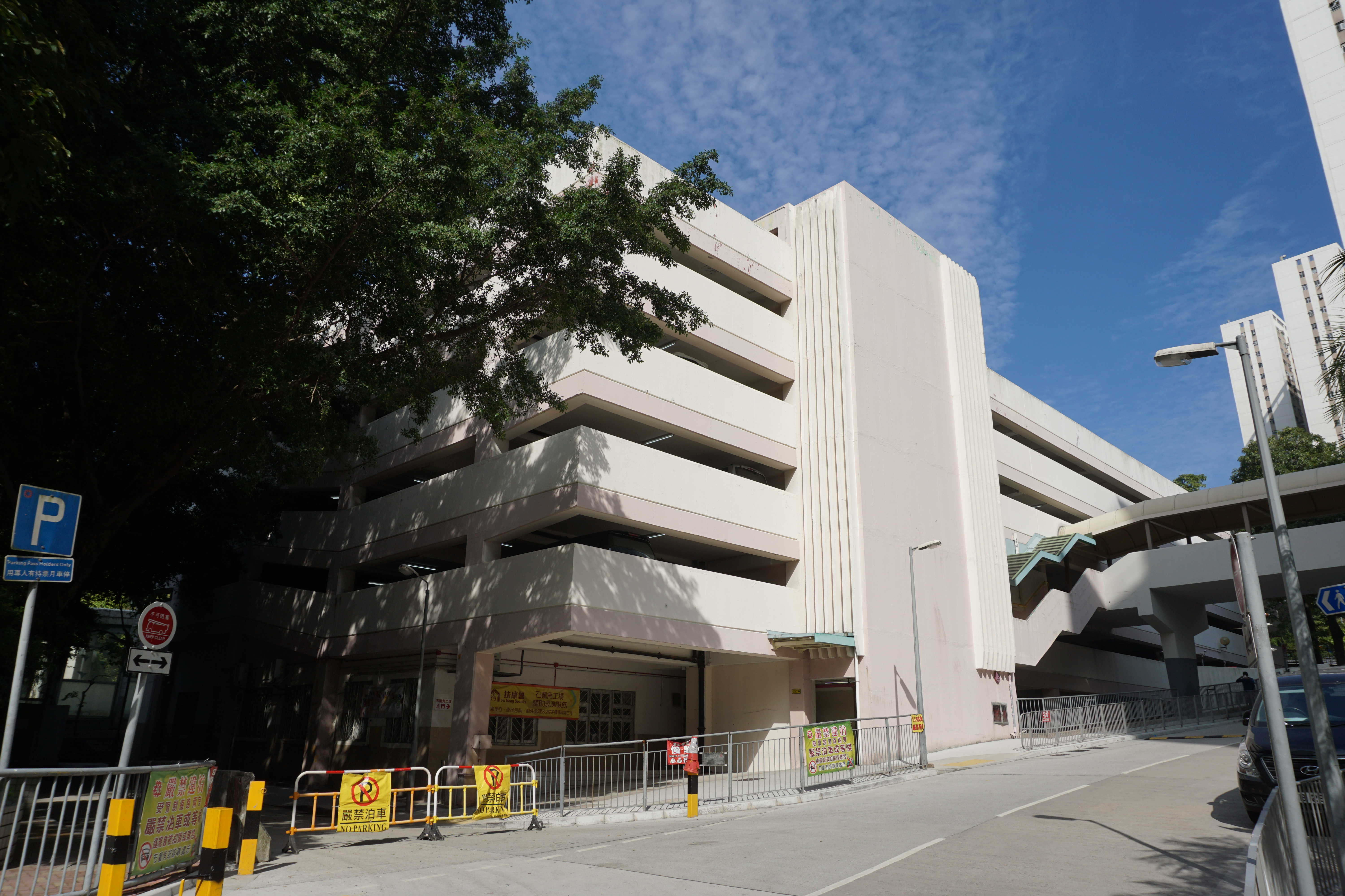 Shek Wai Kok Estate in Tsuen Wan, Hong Kong.